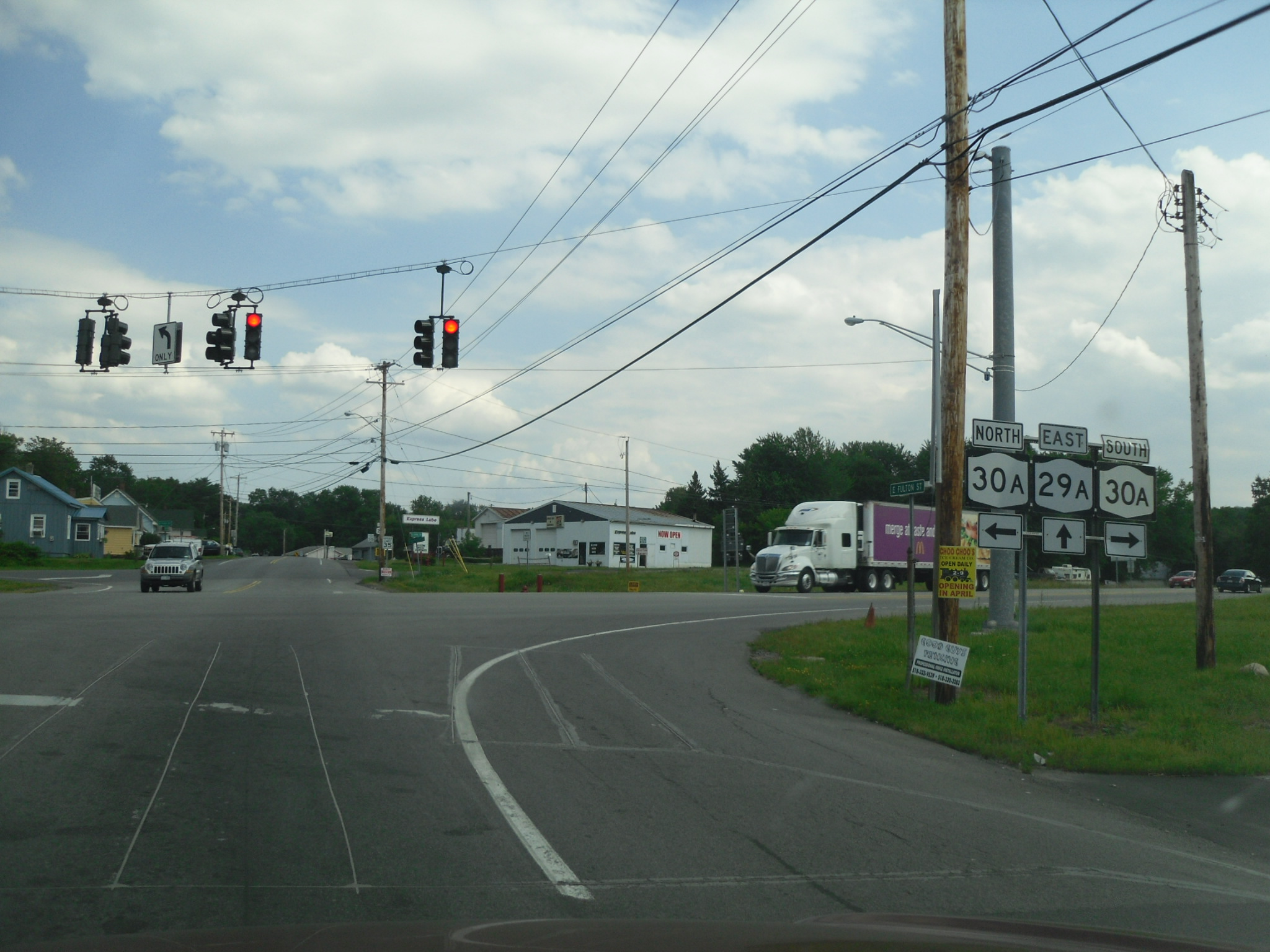 New York State Route 29A at the junction with New York State Route 30A in the town of Johnstown, New York.